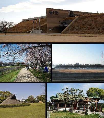 Harima montage